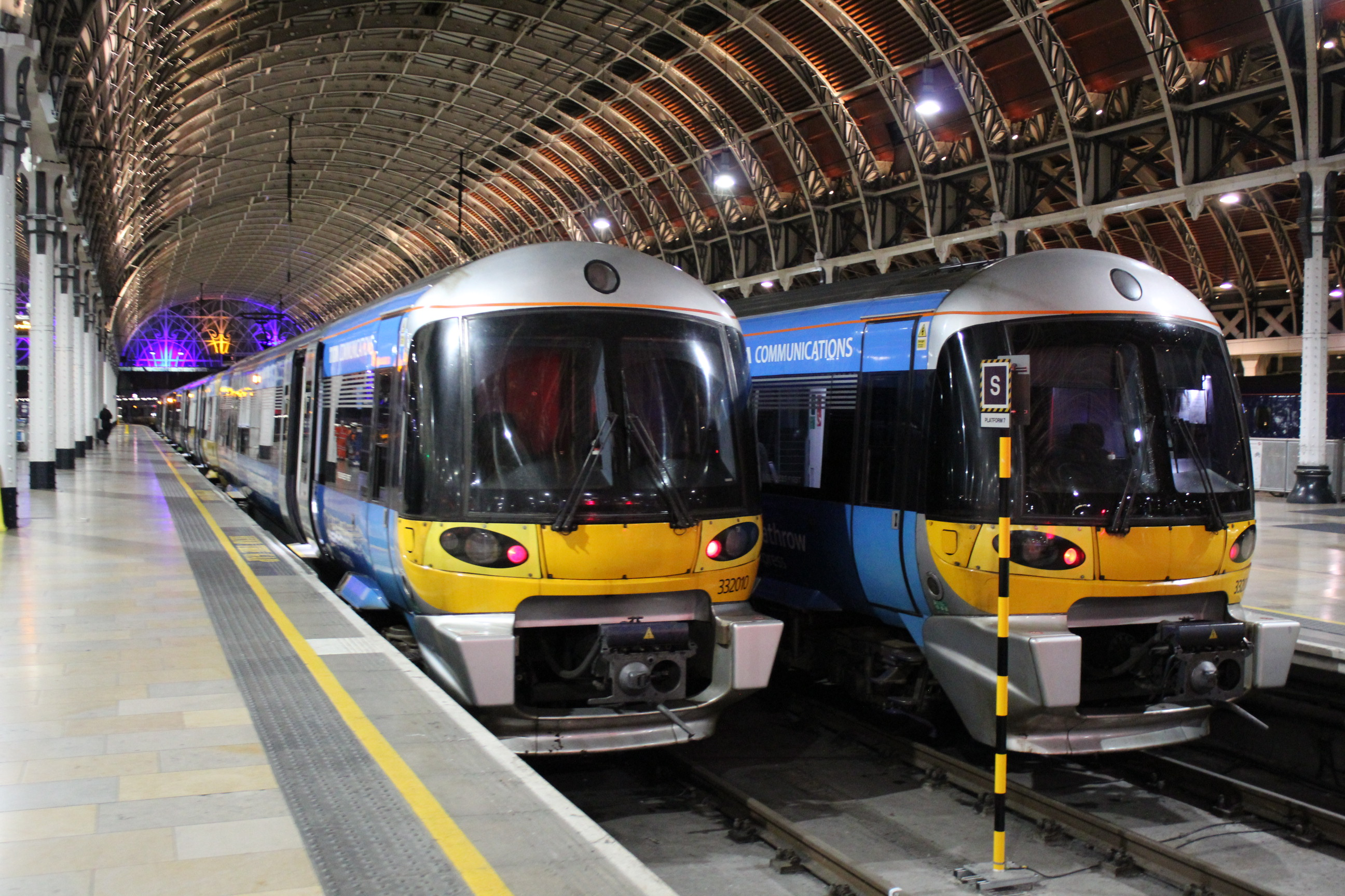 Heathrow Express 332003 and 332010 both await the departure from London Paddington with services to Heathrow Airport.